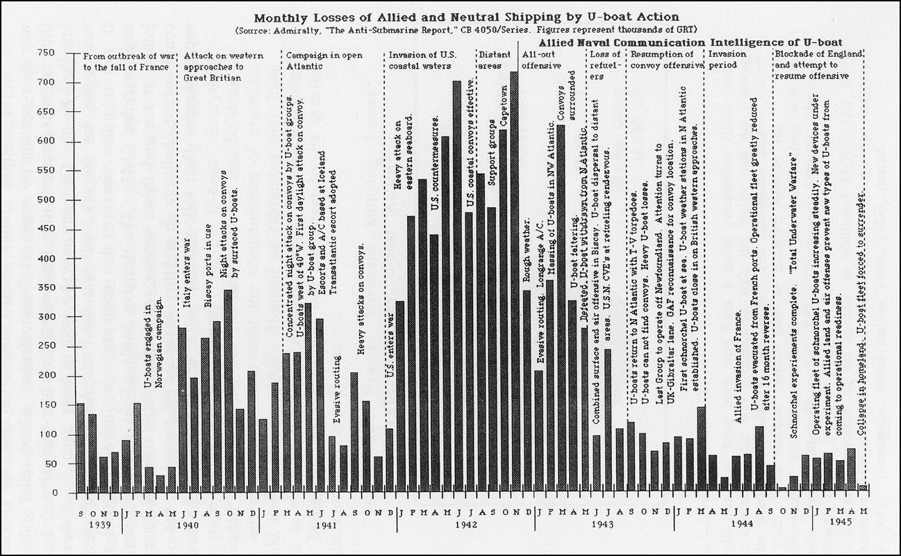 Brief Review of War in the Atlantic. Up to Reading of U-boat Traffic in December 1942